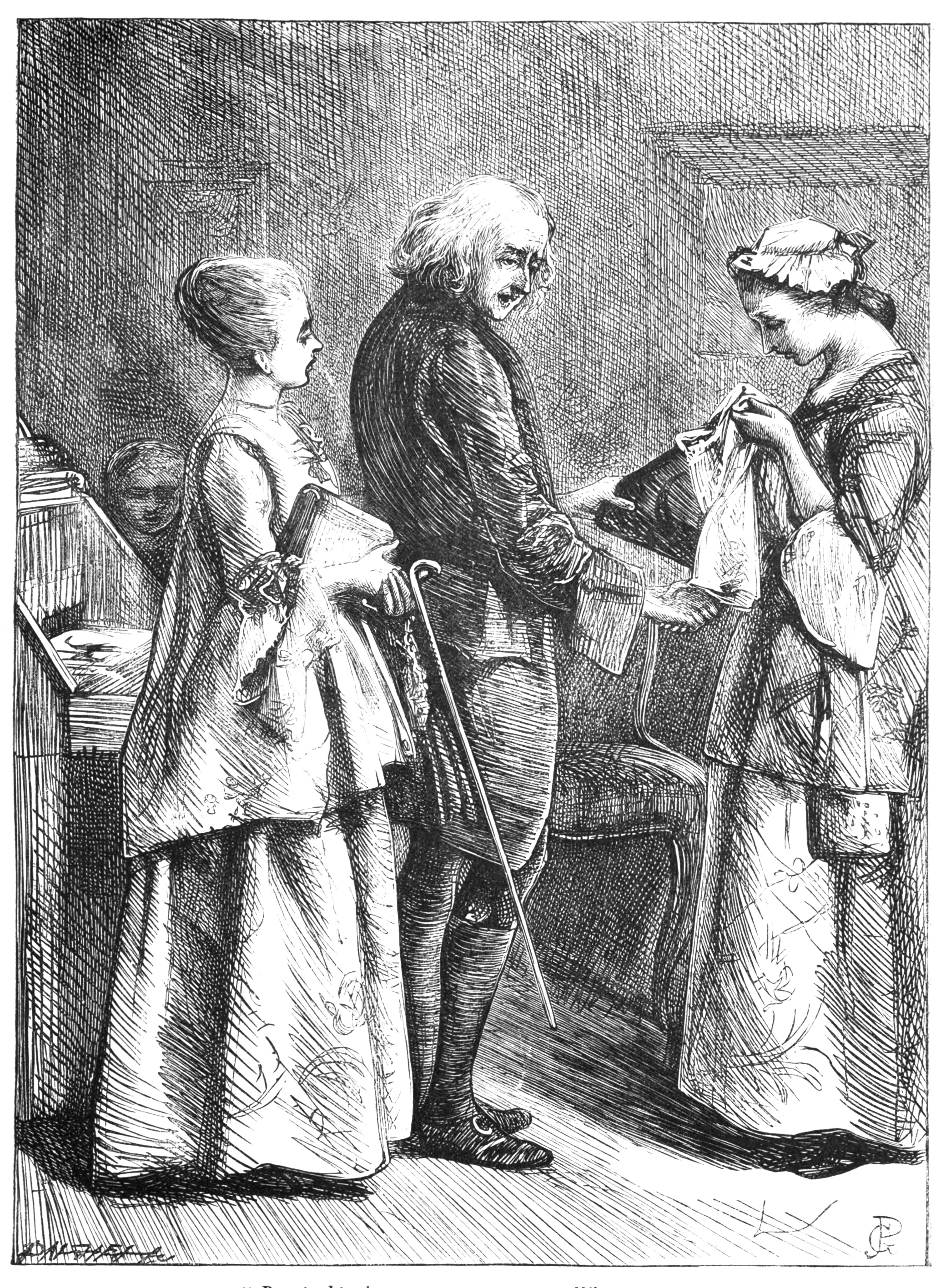 Illustrations of The Deserted Village by Oliver Goldsmith, by the Dalziel Brothers.